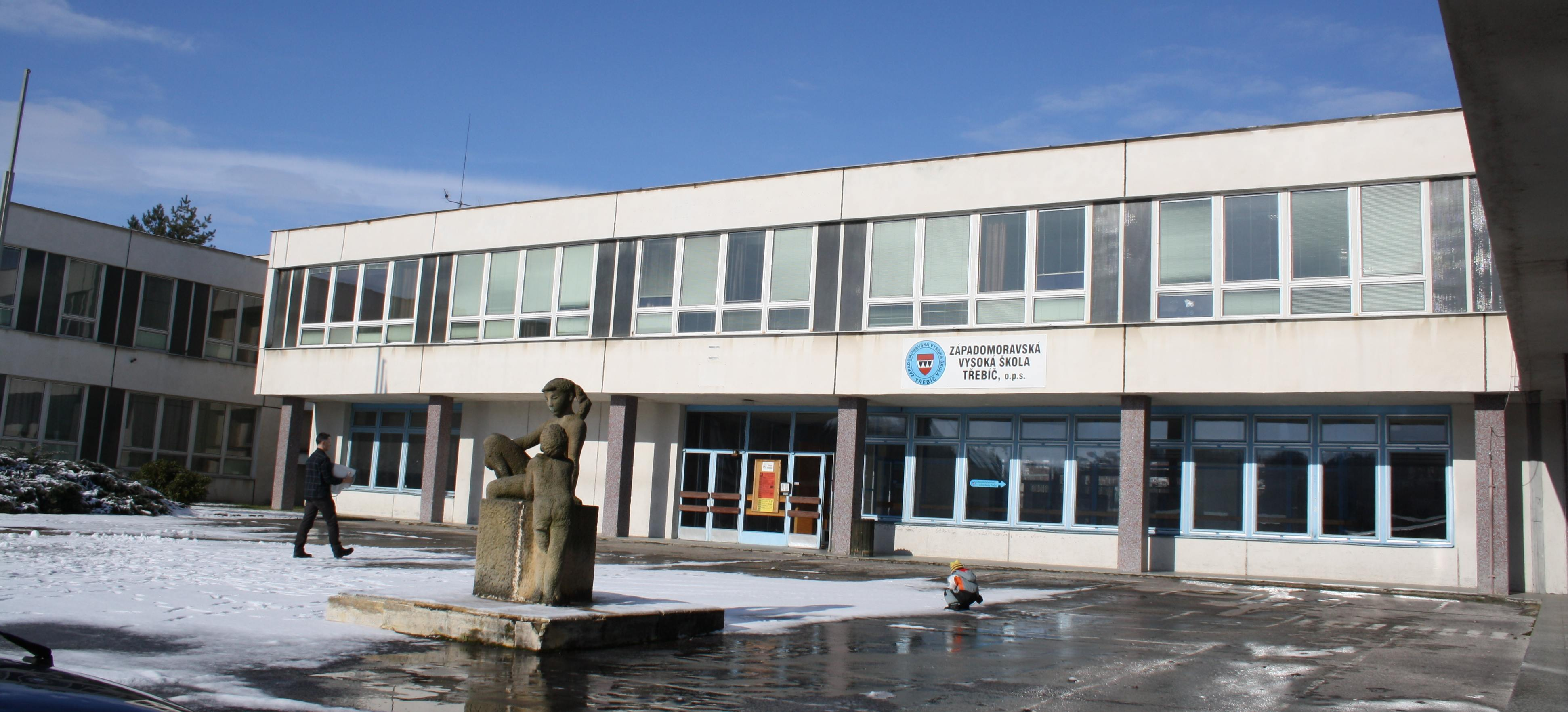 Westmoravian College in Třebíč, Borovina overview.